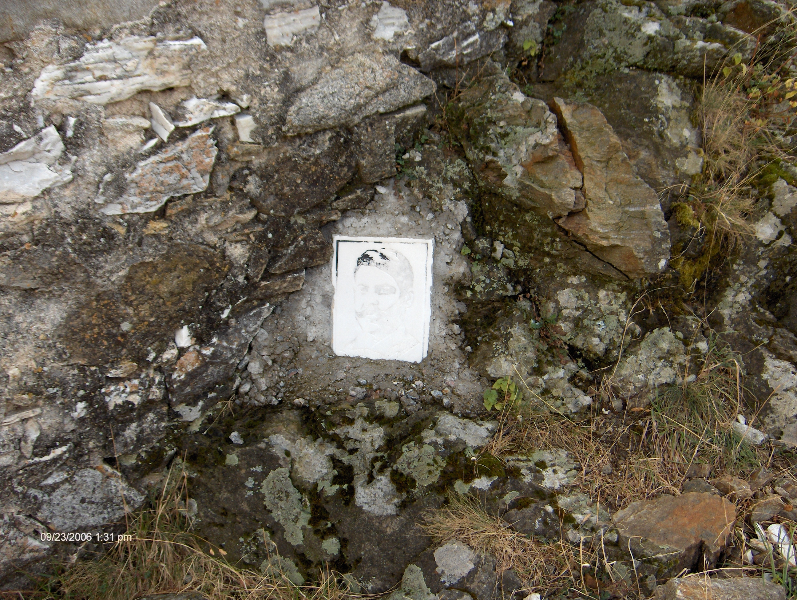 Gotse Delchev's bas-relief at the foot of the bell tower at Banitsa